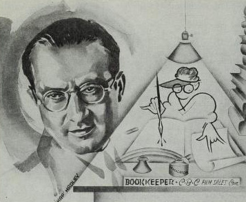 Cartoon image of film producer Samuel J. Briskin in 1936. Other information for an explanation of the copyright for information regarding public domain